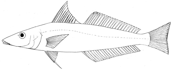 Hand drawn diagram of Sillago sihama, the northern whiting. Based on photo by JE Randall